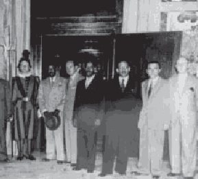 Image from a book on Eritrea independence, published in 1949.I have done a photo with my digital Kodak, and later enlarged it with my software. No copyrighted because image is 60 years old at least.